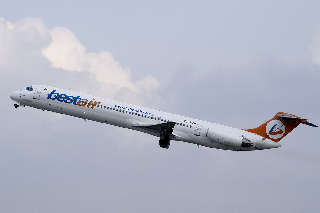 Best Air MD-82 TC-TUA. At Stuttgart (STR/EDDS) (1721) 48.69° N 9.21° O